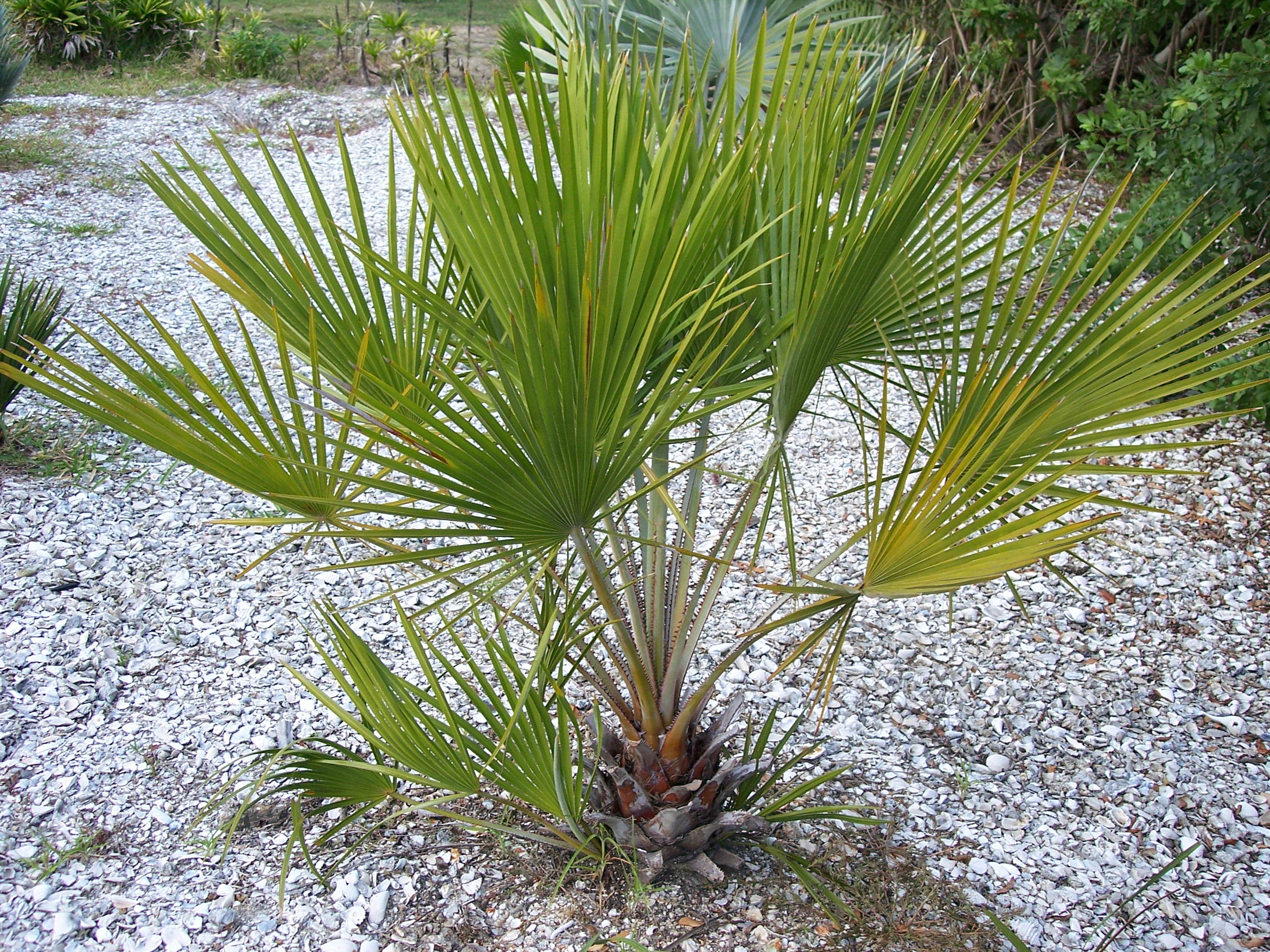 Young Copernicia glabrescens in Tampa, Florida